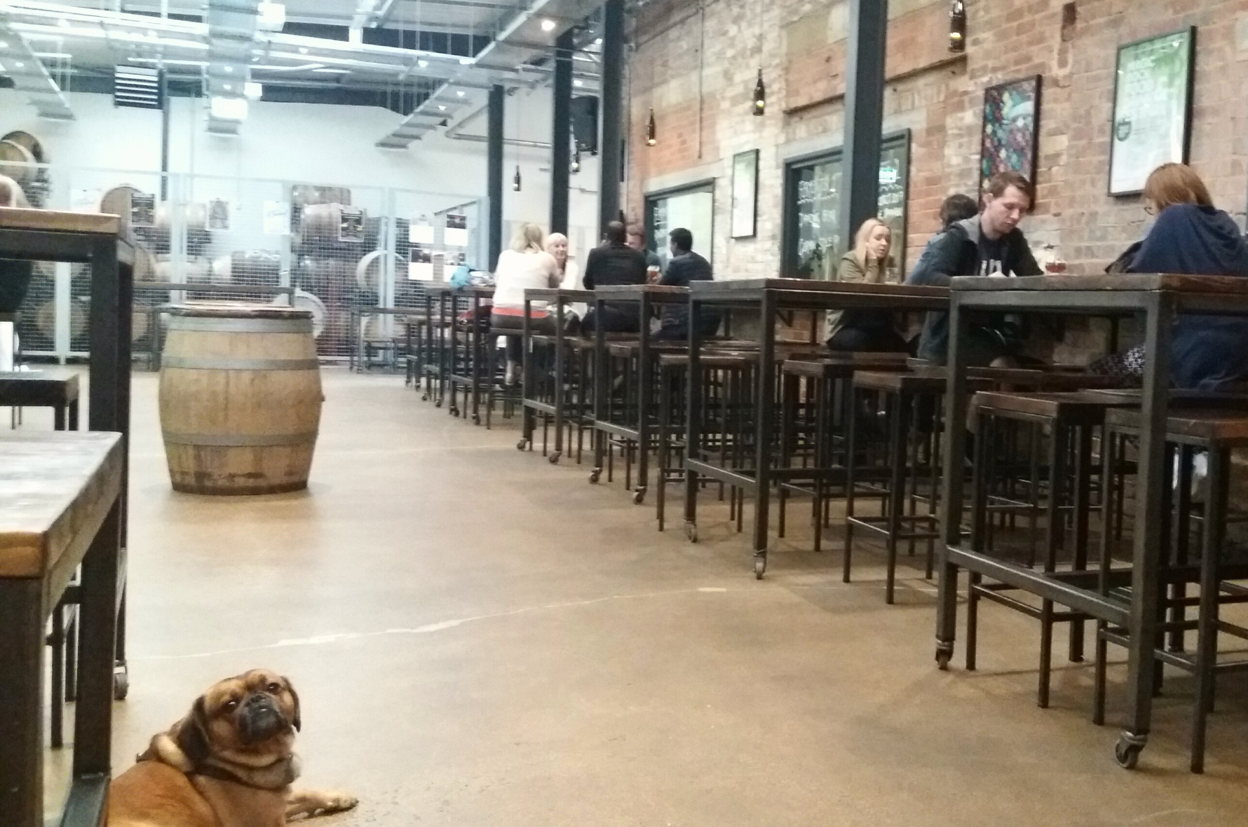 Magic Rock Brewery tap in Huddersfield.